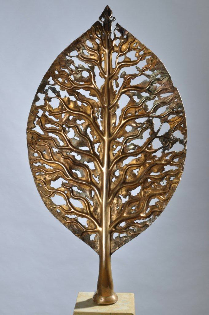 Life Leaf in bronze by Mark Reed